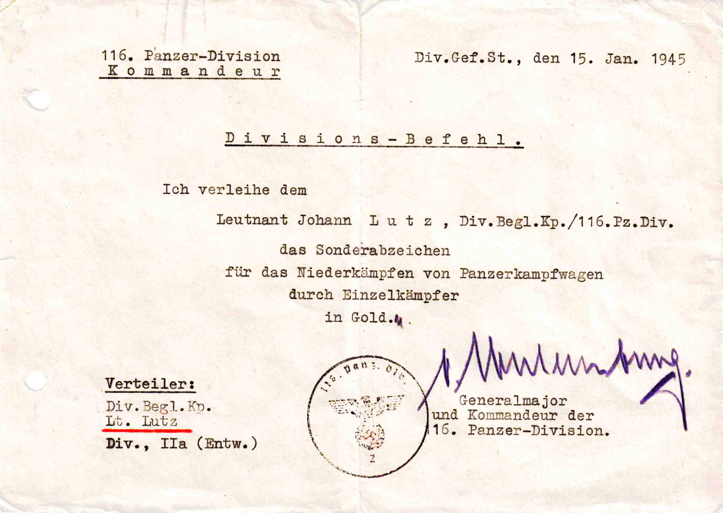 Certificate for Sonderabzeichen für das Niederkämpfen von Panzerkampfwagen durch Einzelkämpfer in Gold